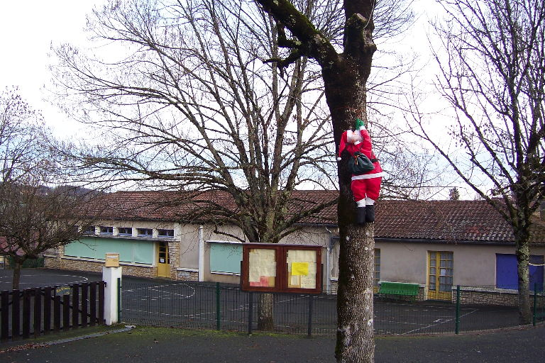 Picture of primary school of Montfaucon in Lot, France.